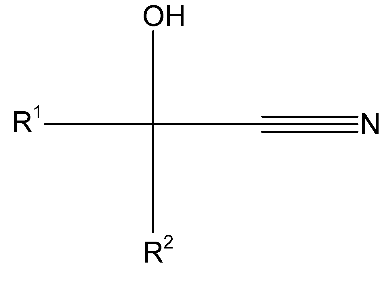 I made it myself using ACD/ChemSketch